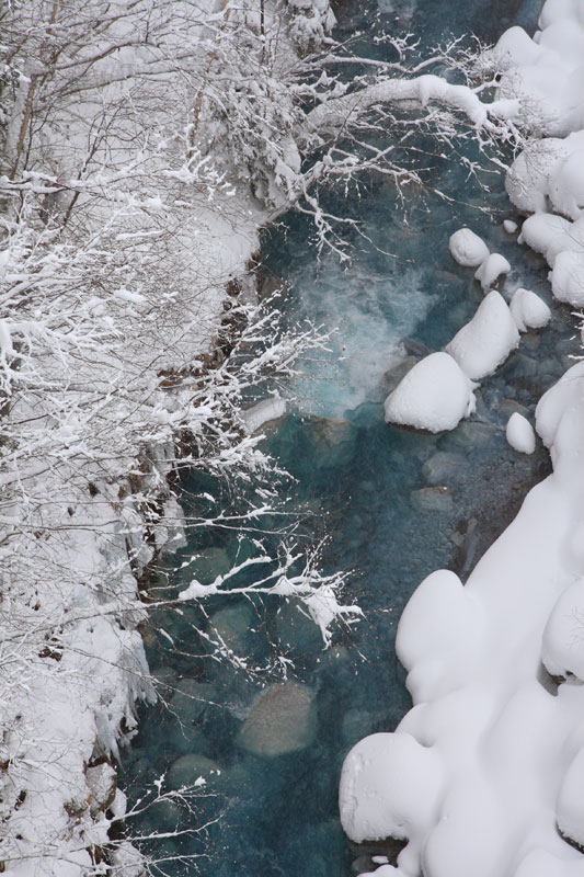 Biei River in winter.